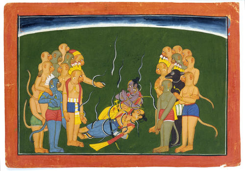 Rama and Lakshmana Bound by Indrajit's Serpent Arrows